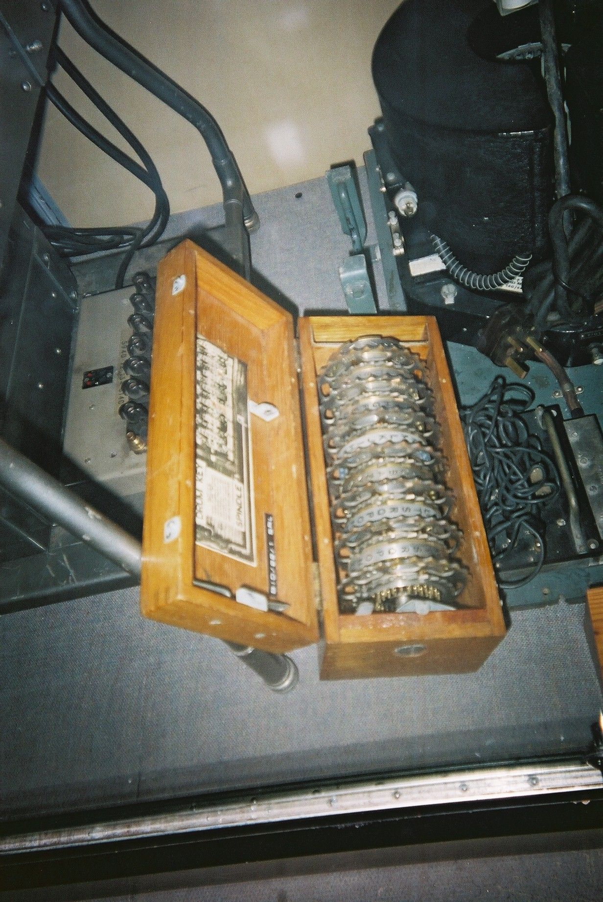 Typex machine rotors at the Royal Signals Museum, Blandford Camp.